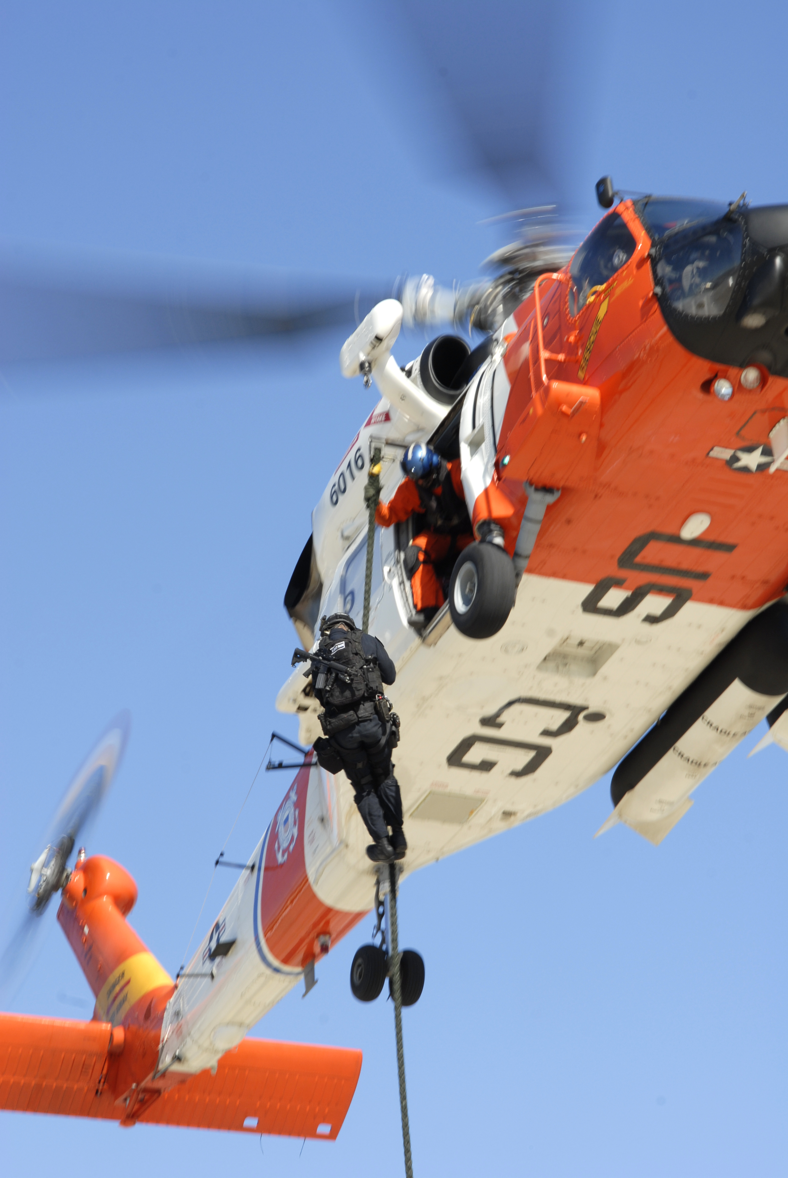 SAN DIEGO -- A member of the Pacific Tactical Law Enforcement Team completes a vertical insertion drill, fast roping from the HH-60 Jayhawk helicopter to the deck of the 87-foot Coast Guard Cutter Petrel.